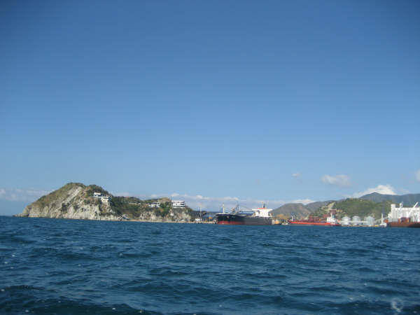 Image of the port of Santa Marta, Colombia